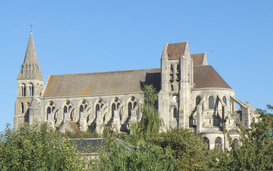 Saint-Leu-d'Esserent Abbey, Oise, France